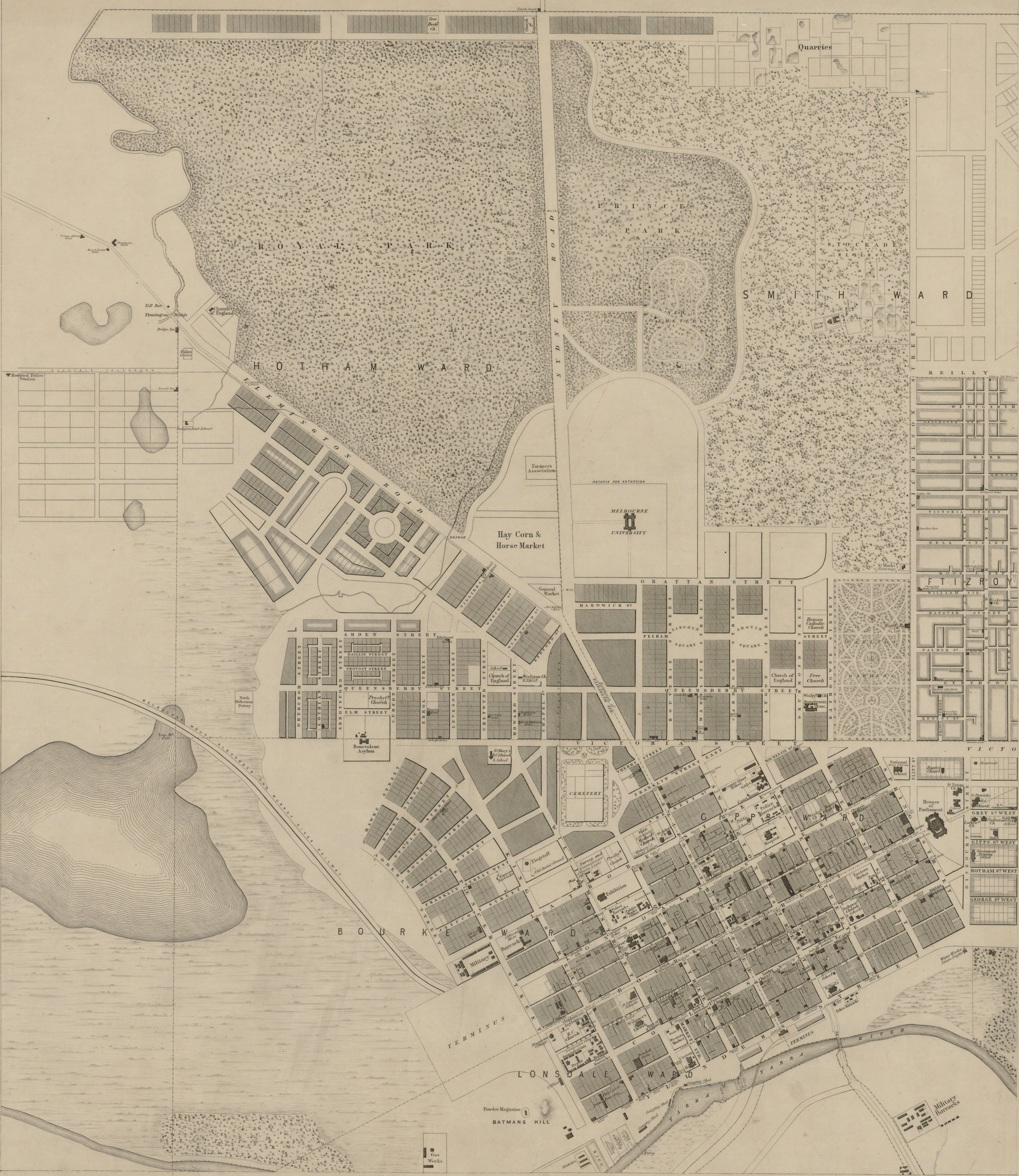 Map of Melbourne, 1855. Sheet 1 of 4 (North-West) showing current CBD, Melbourne University and General Cemetery.